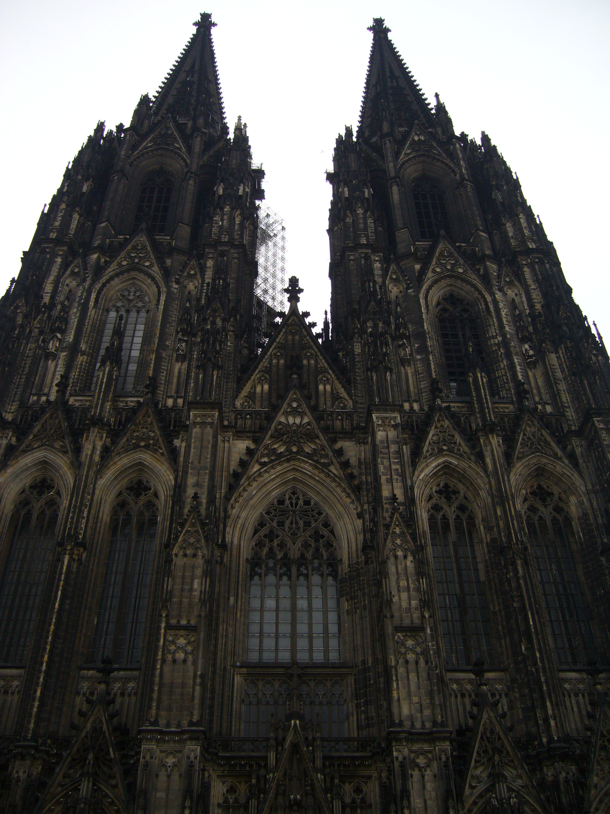 Cologne Cathedral (Germany)